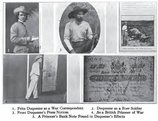 A composition of pictures of Fritz Joubert Duquesne, pre-1919